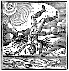 woodcut by Jörg Breu displayed as Emblema LXXV (emblem 75) in the Book of Emblems (Latin: Emblematum liber by Andrea Alciati)